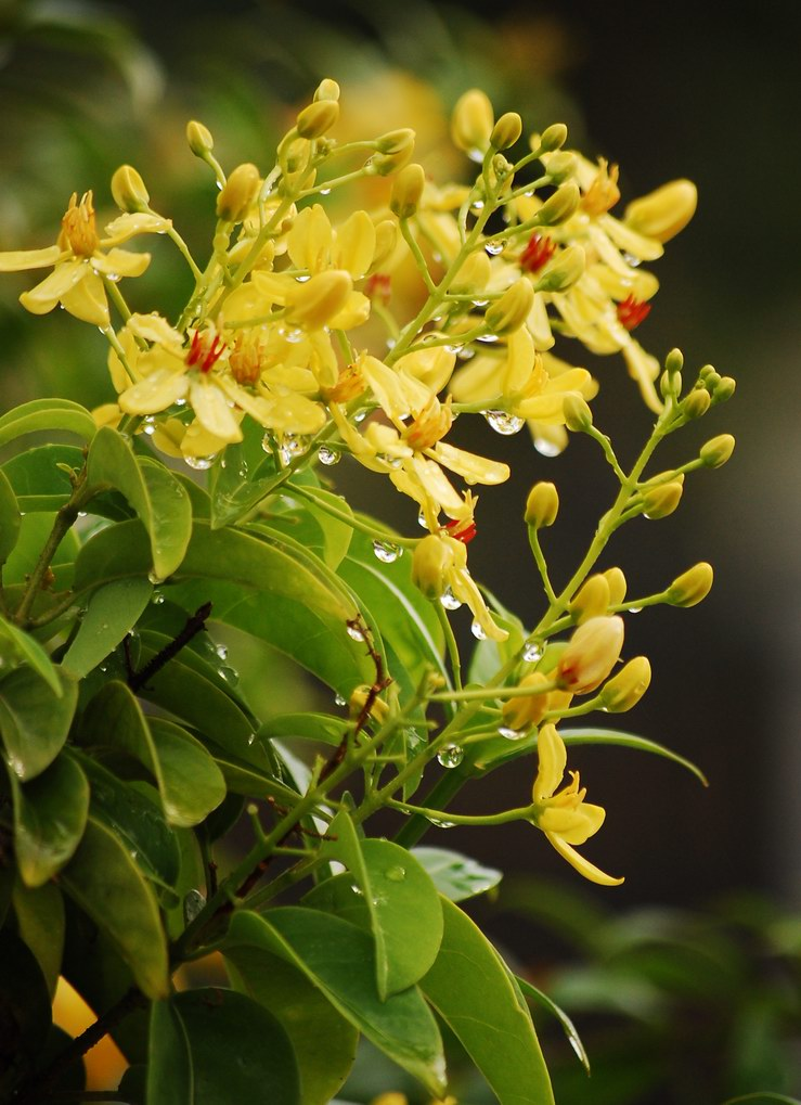 Australian gold vine